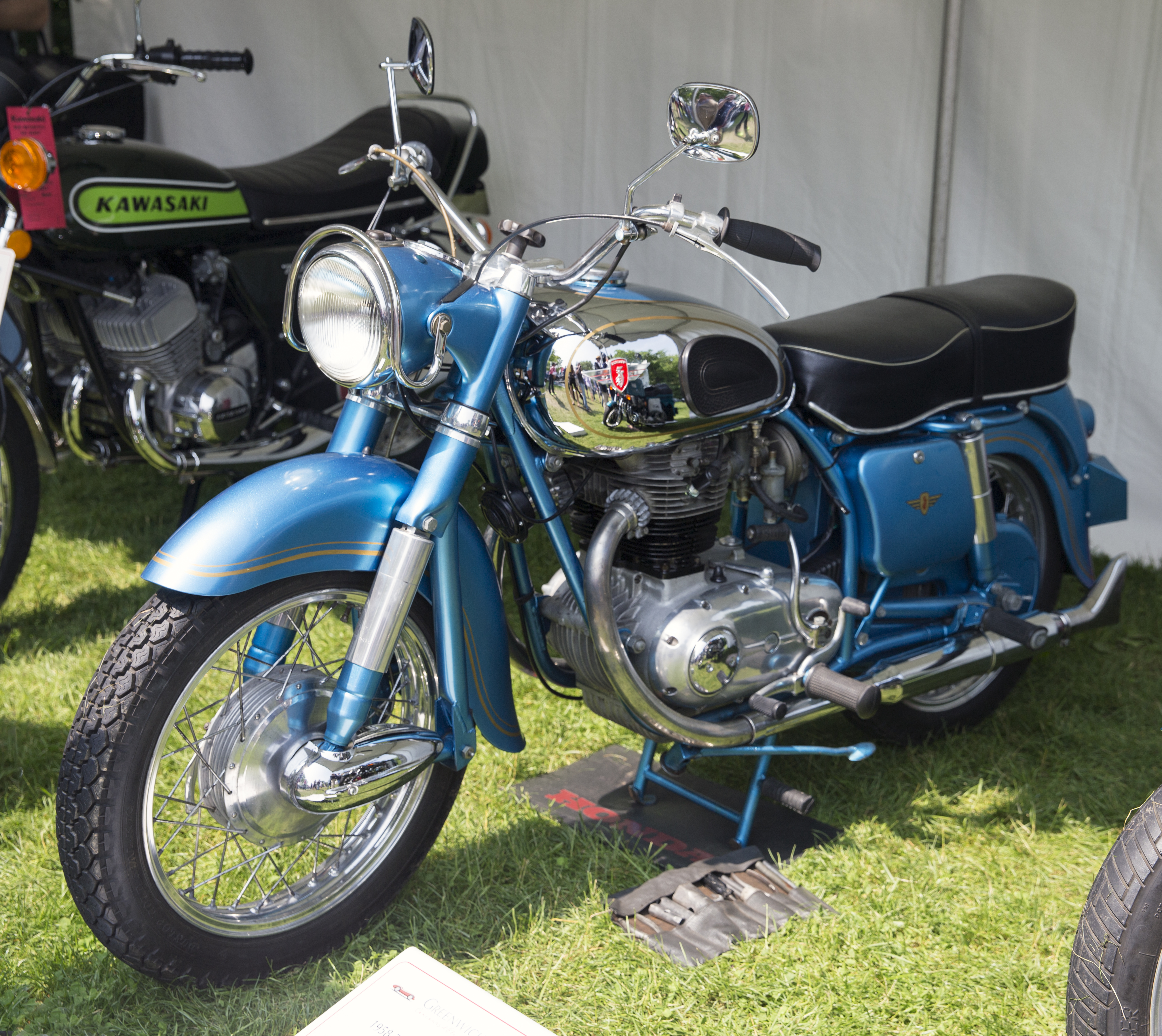 1958 Zündapp Citation at the 2019 Greenwich Concours d'Elegance.